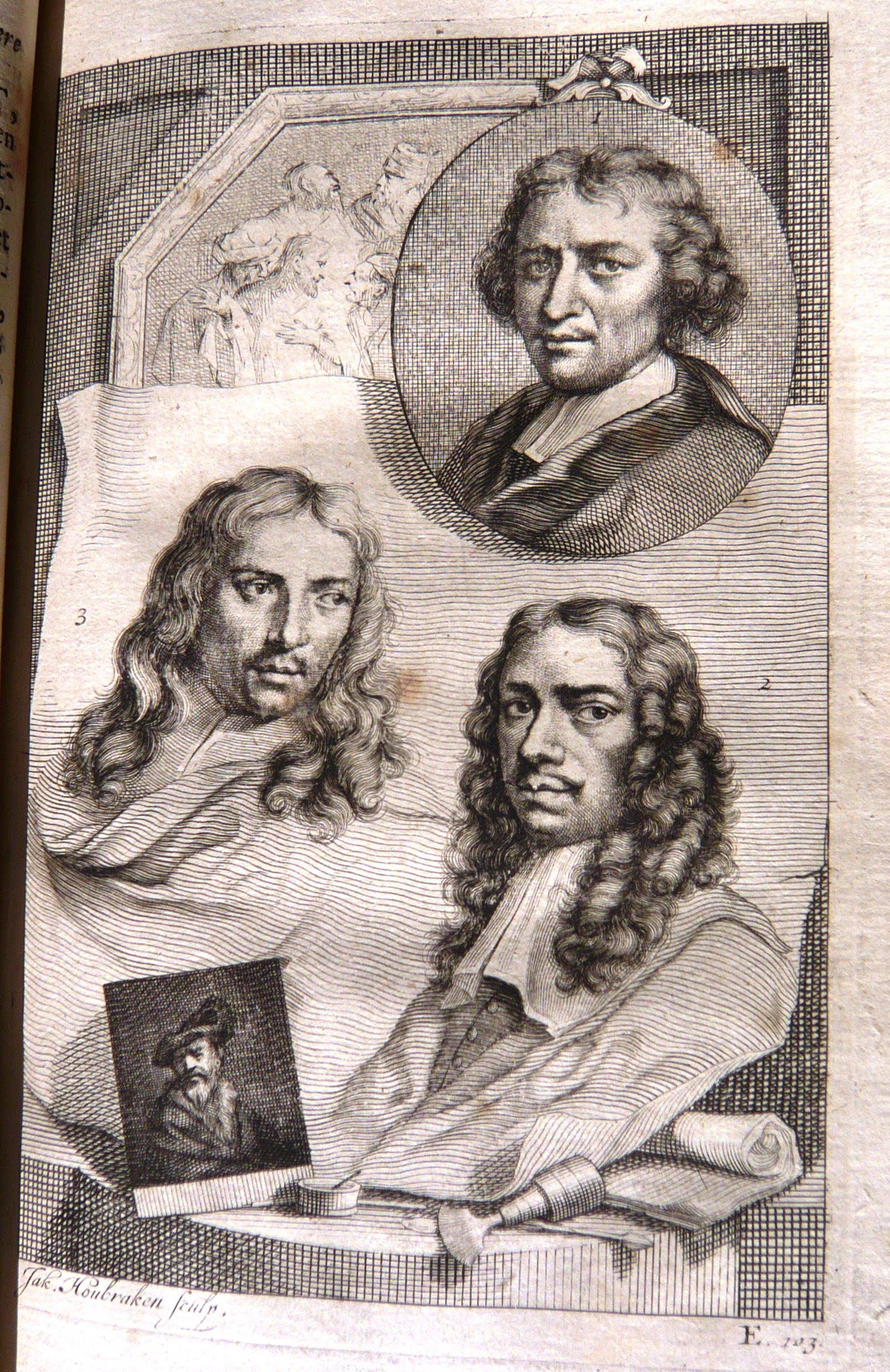 Schouburg Plate E- Gerbrand van den Eekhout and Wallerant and Jaques Vaillant of Part 2 of Arnold Houbraken's Schouburg from 1719